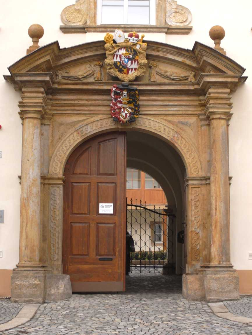 baroque style portal of Konzervatoř Evangelické Akademie in Olomouc (moravian cretaceous sandstone)